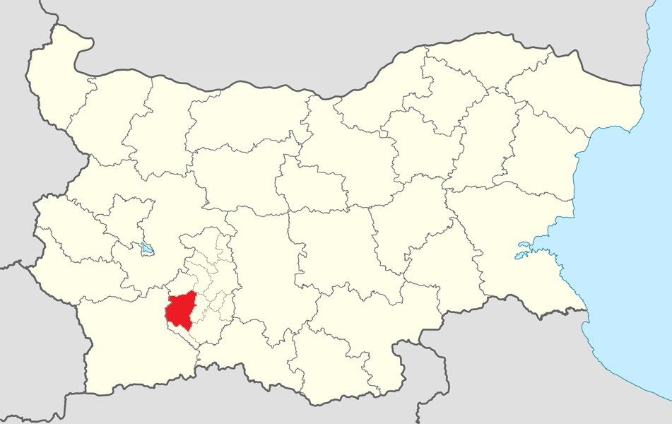 Location map of Velingrad Municipality within Bulgaria and Pazardzik province